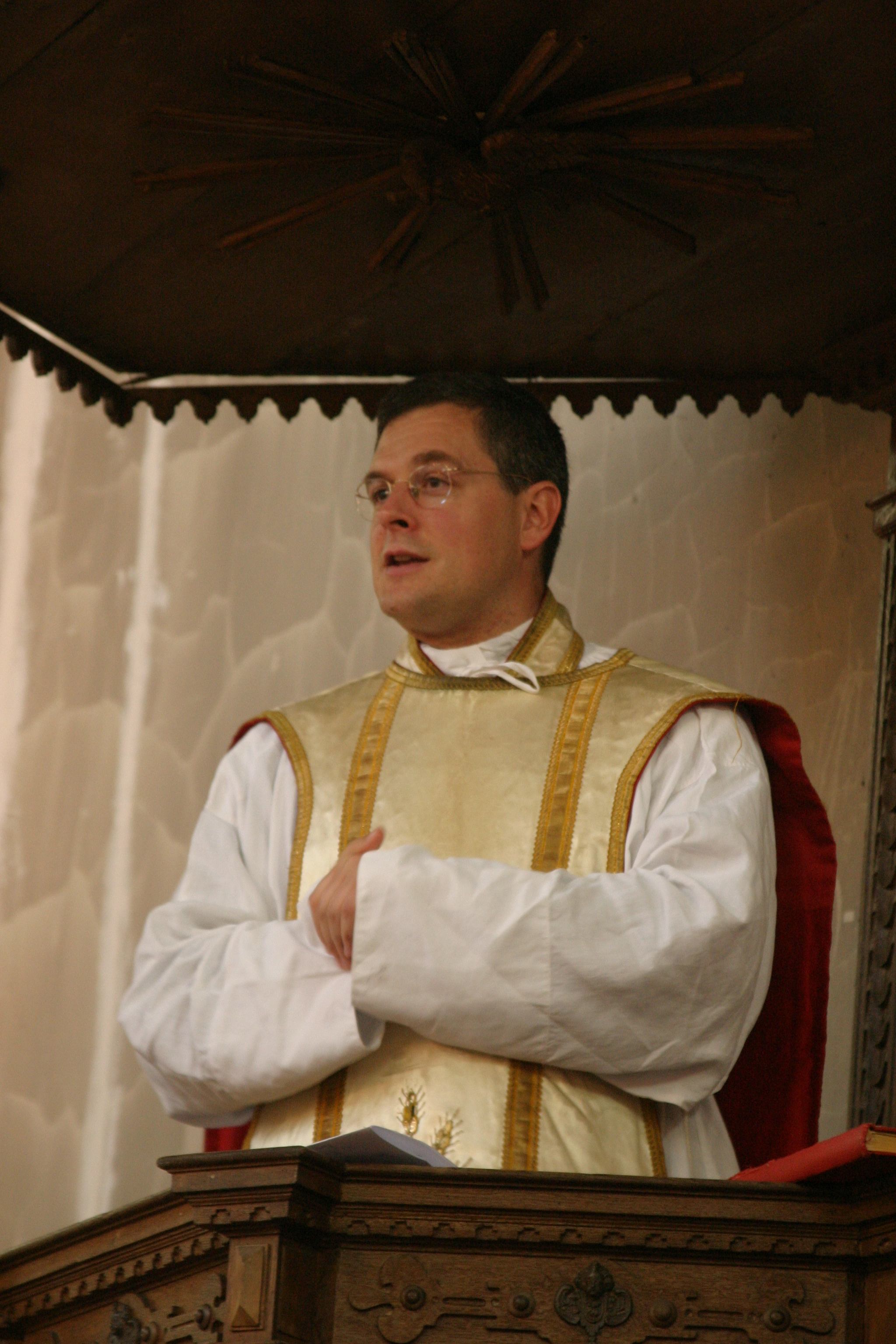 Father John Berg